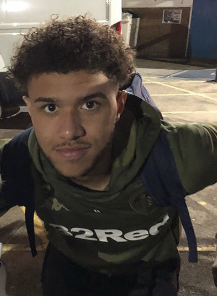 Welsh striker Tyler Roberts